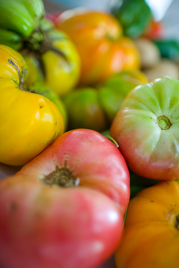 Heirloom Tomatoes